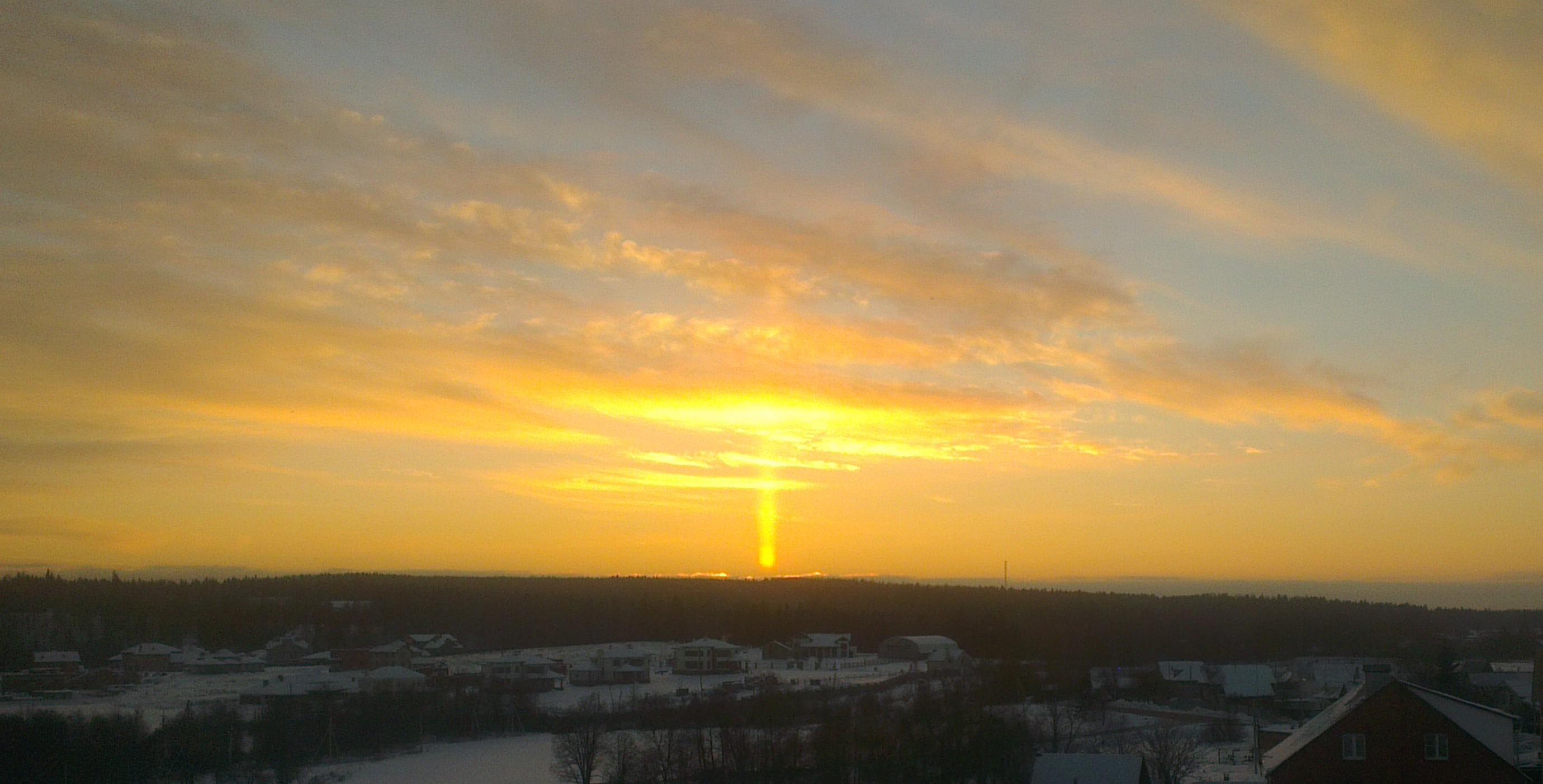 Solar pillar in Istra, Moscow region.